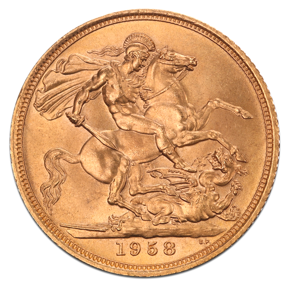 Image of a Sovereign from 1958.